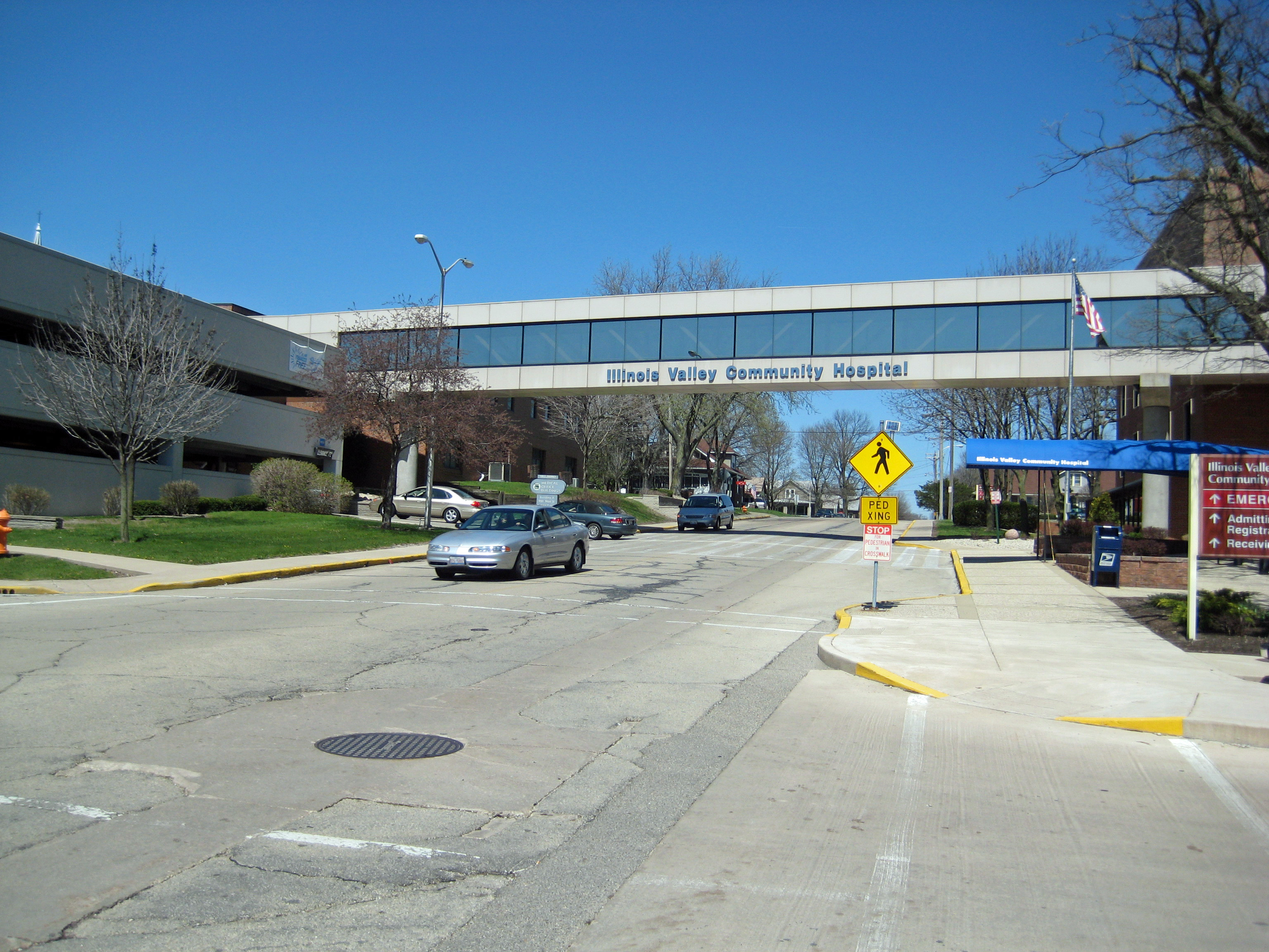 West Street in Peru, Illinois